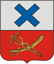 Irbit (Sverdlovsk oblast), coat of arms (1776)